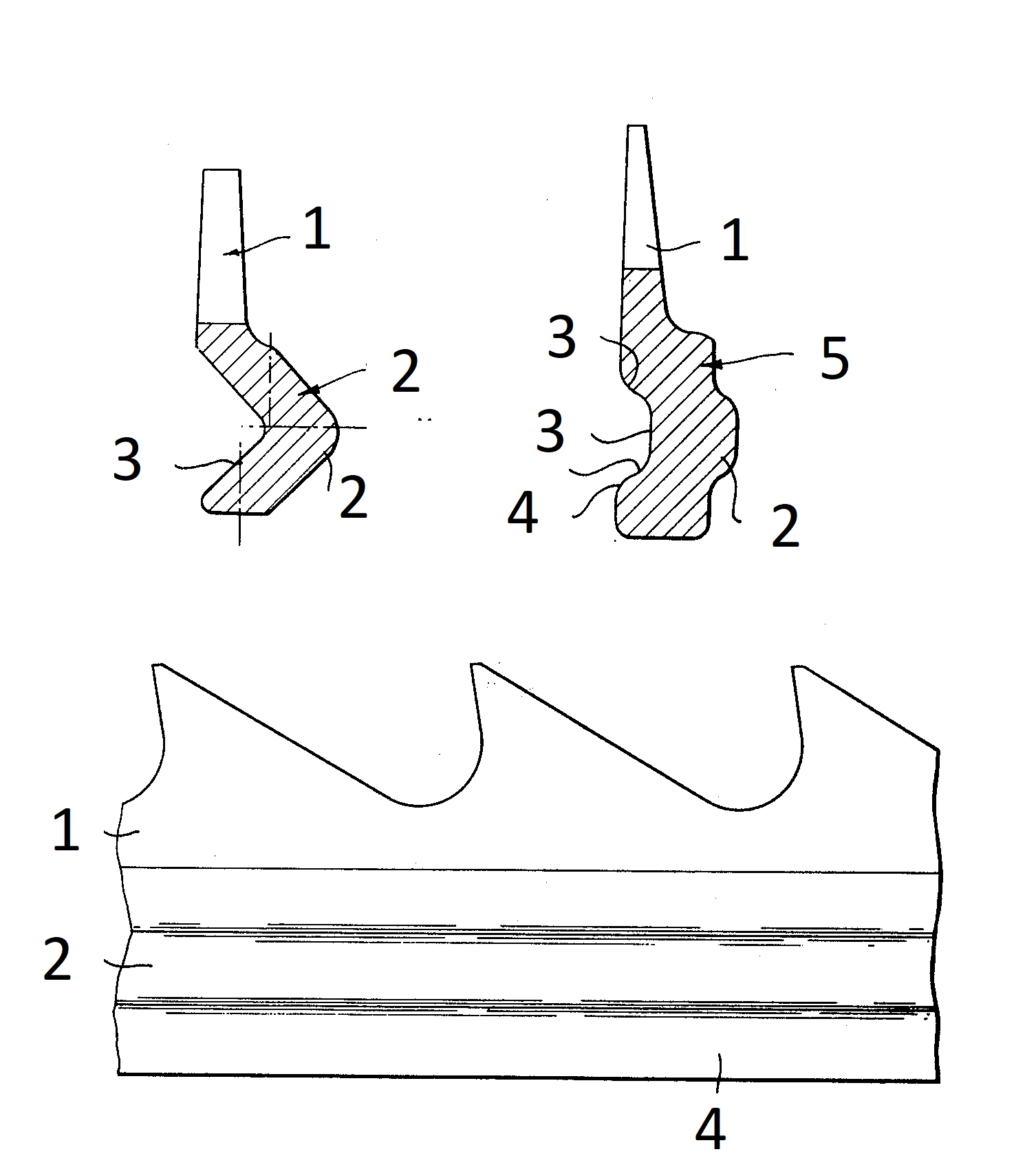 Metallic wire type card-clothing